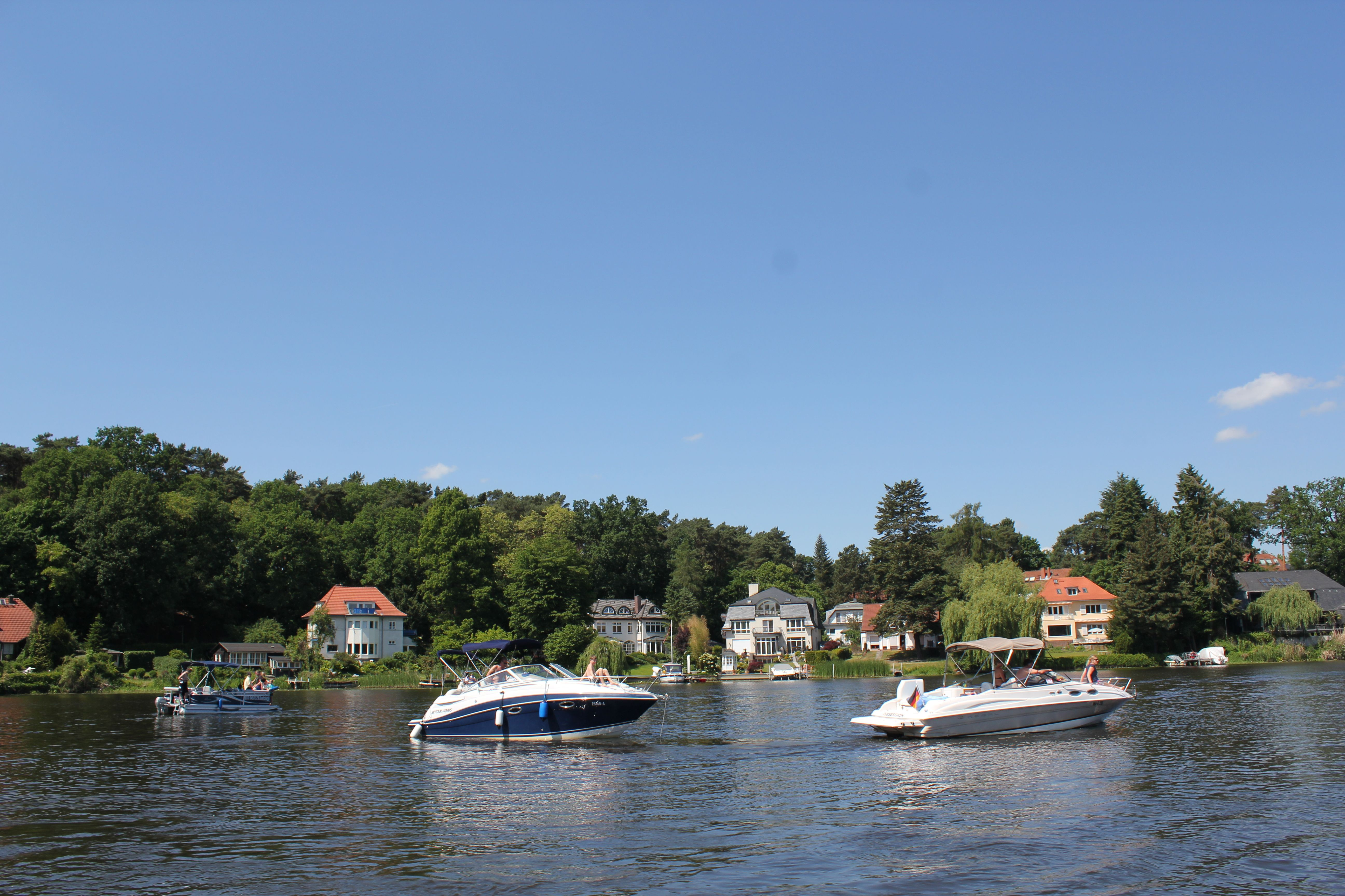 Berlin Wannsee